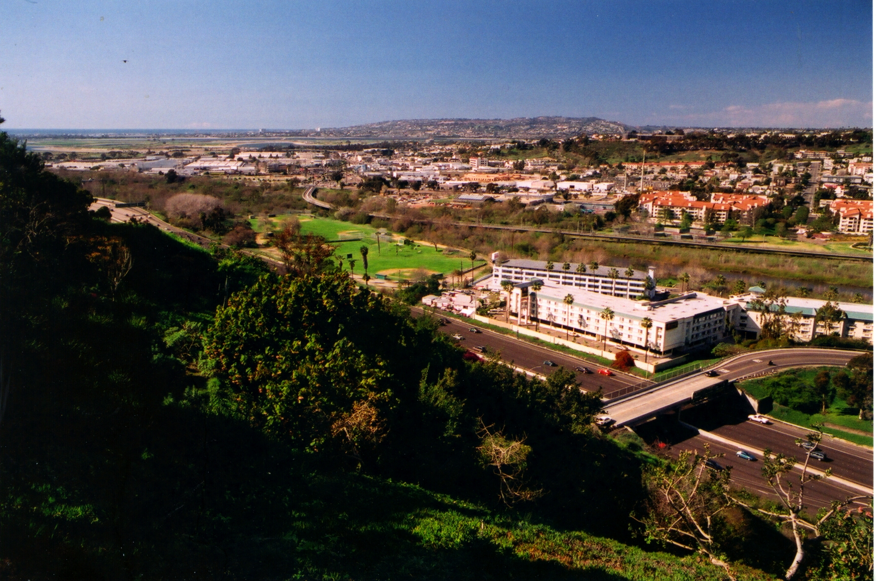 A photo of Mission Valley taken from a dead on at the NE end of Arista Street on a day that had 40 mile (65Km) visibility. This photo was taken with a Pentax ME Super using 35mm Kodak Royal Gold film.